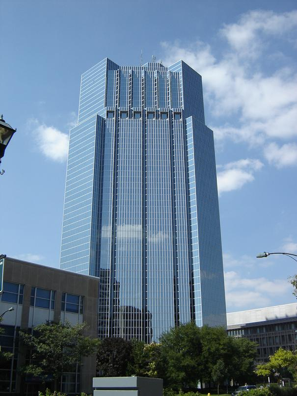 One London Place, London, Ontario